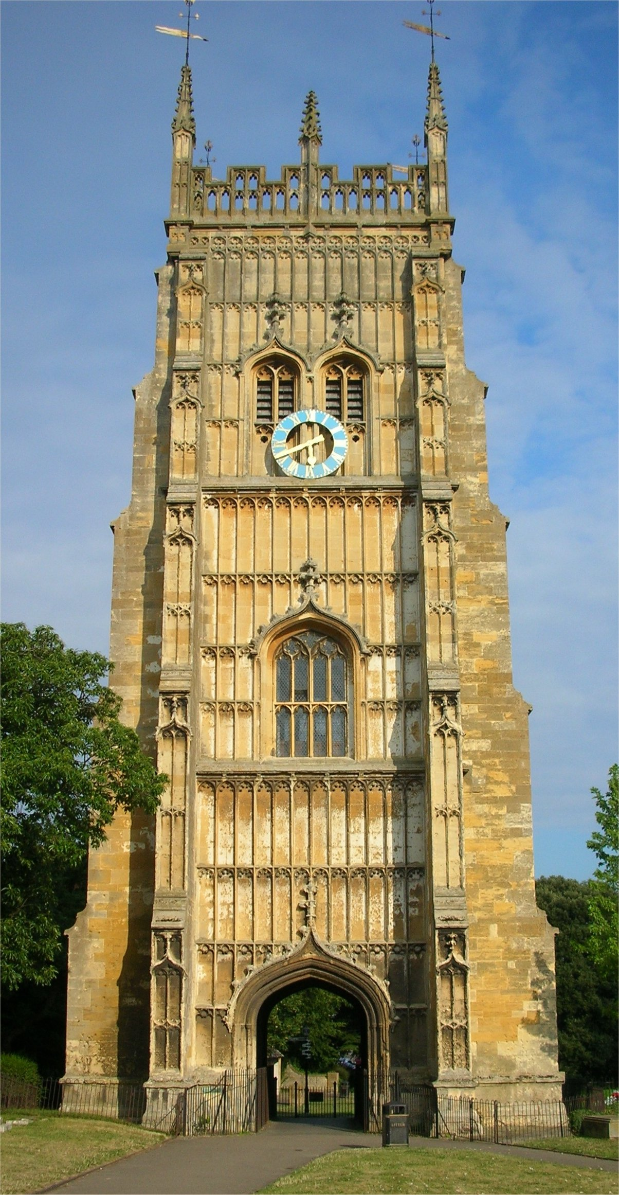 Evesham Abbey bell tower in Evesham, England. Originally built 1529-1539 by Clement Lichfield, last Abbot of Evesham. Photographed by me, 16 August 2006. Oosoom 22:44, 16 August 2006 (UTC)